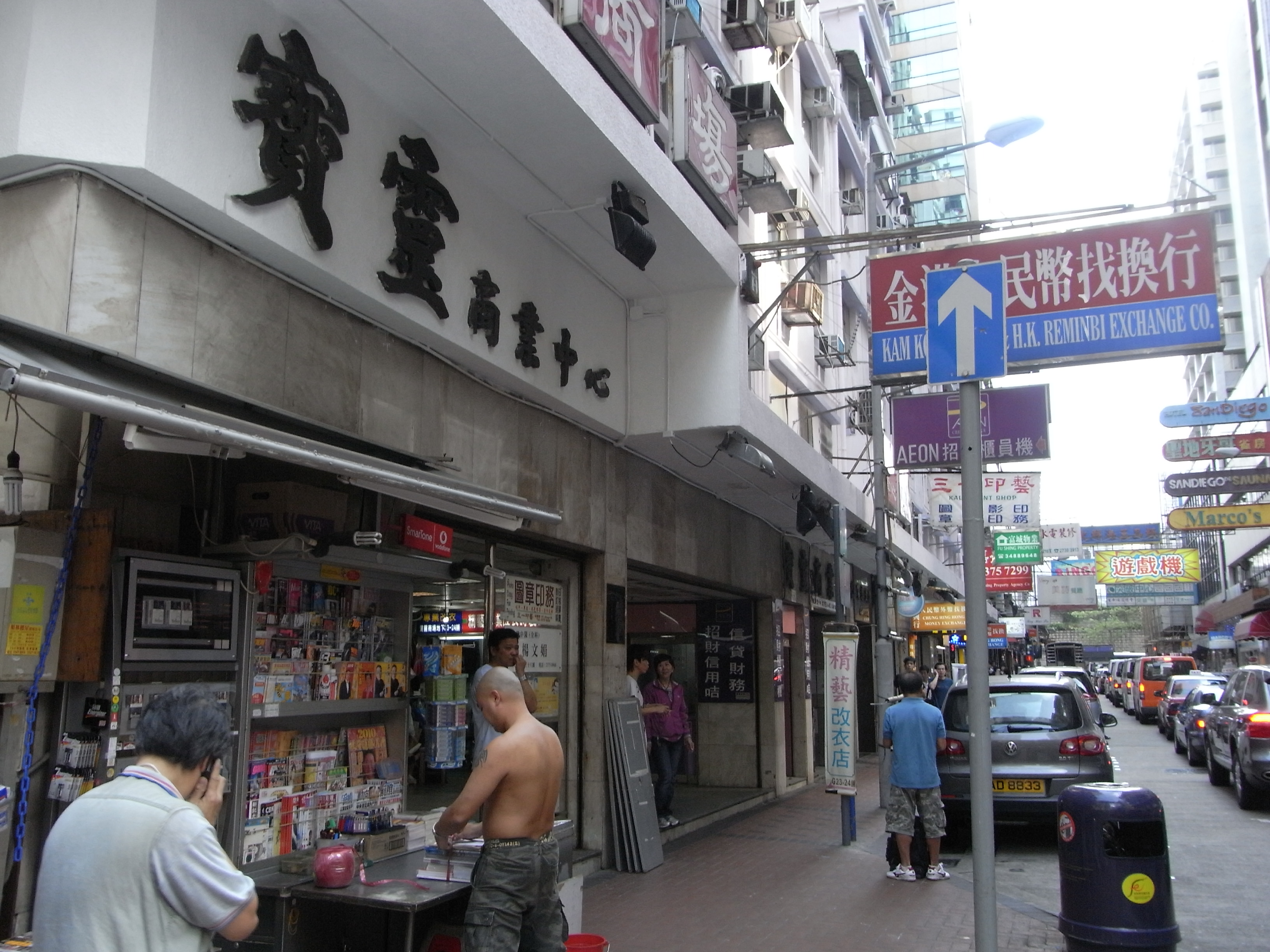 油麻地 吳松街 & 寶靈商業中心